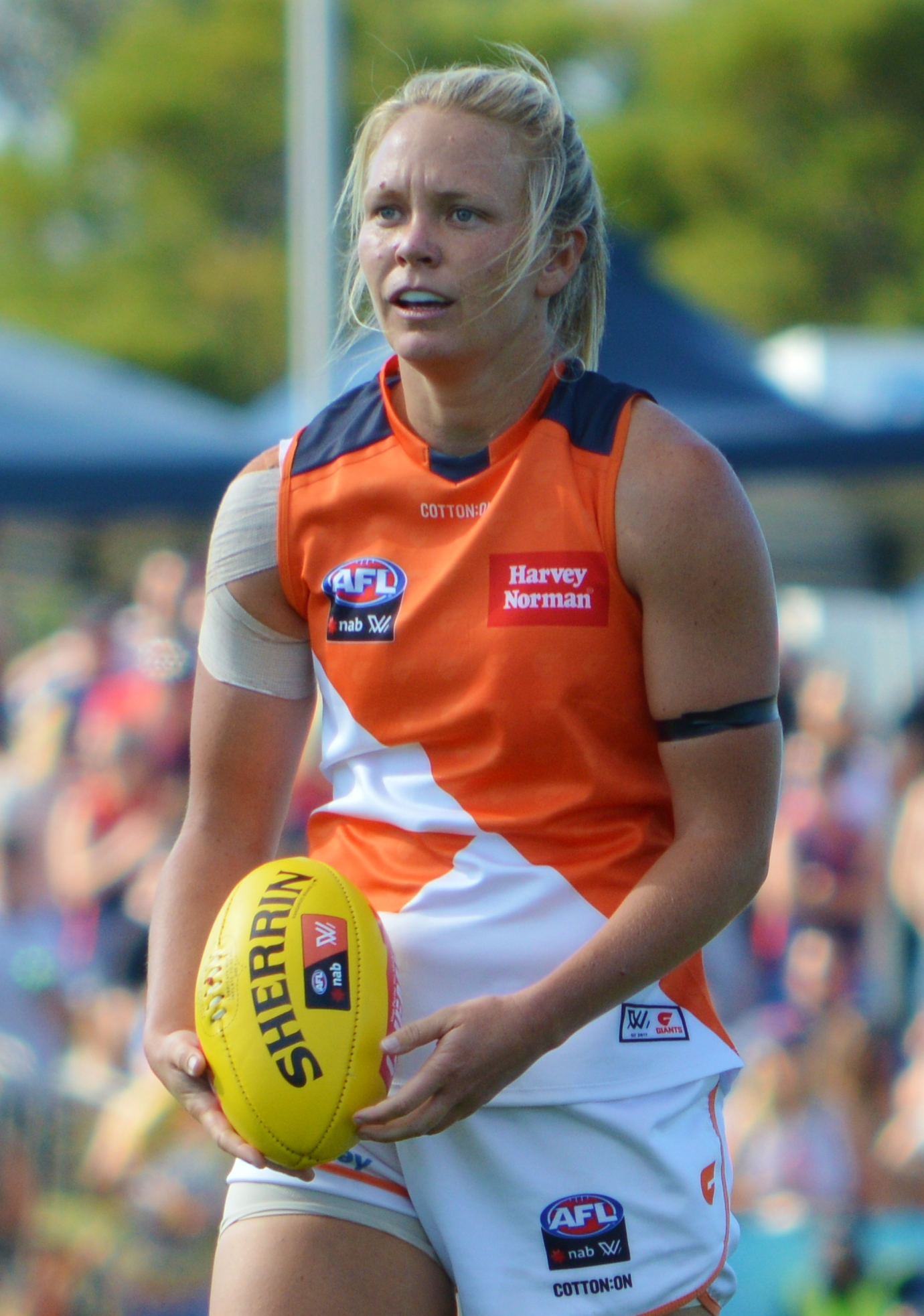 Phoebe McWilliams during the round 1, 2018 AFL Women's match between Melbourne and Greater Western Sydney